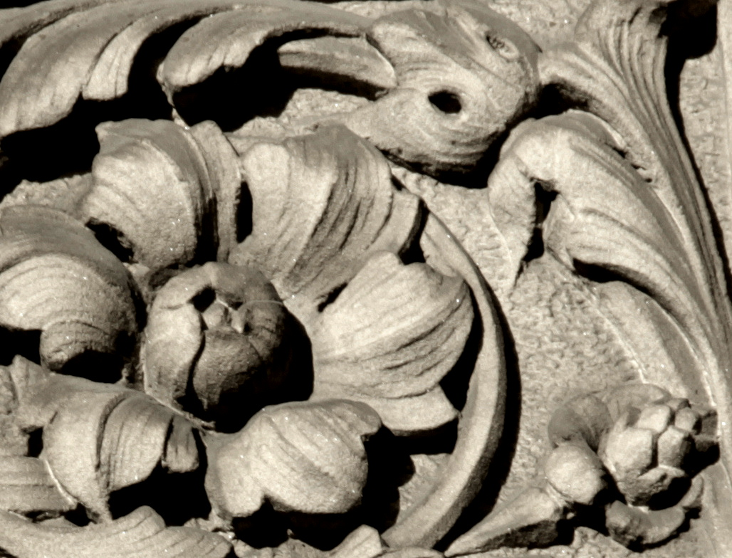 These carvings by Matthew Taylor and Benjamin Payler are on the exterior of the former Municipal Buildings (now the Central Library), Leeds, West Yorkshire, England. It was built 1879-1884 to the design of George Corson. Showing detail of a spandrel above the south/side library door.